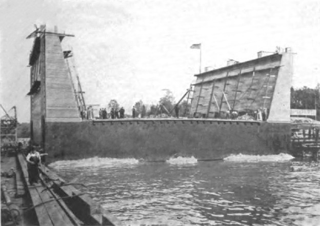 Launch of the fifth section of the Morse Dry Dock and Repair Company's floating dry dock at Brooklyn, New York in mid-1919. When completed in late 1919, the six-section dock was the largest floating dry dock in the world.